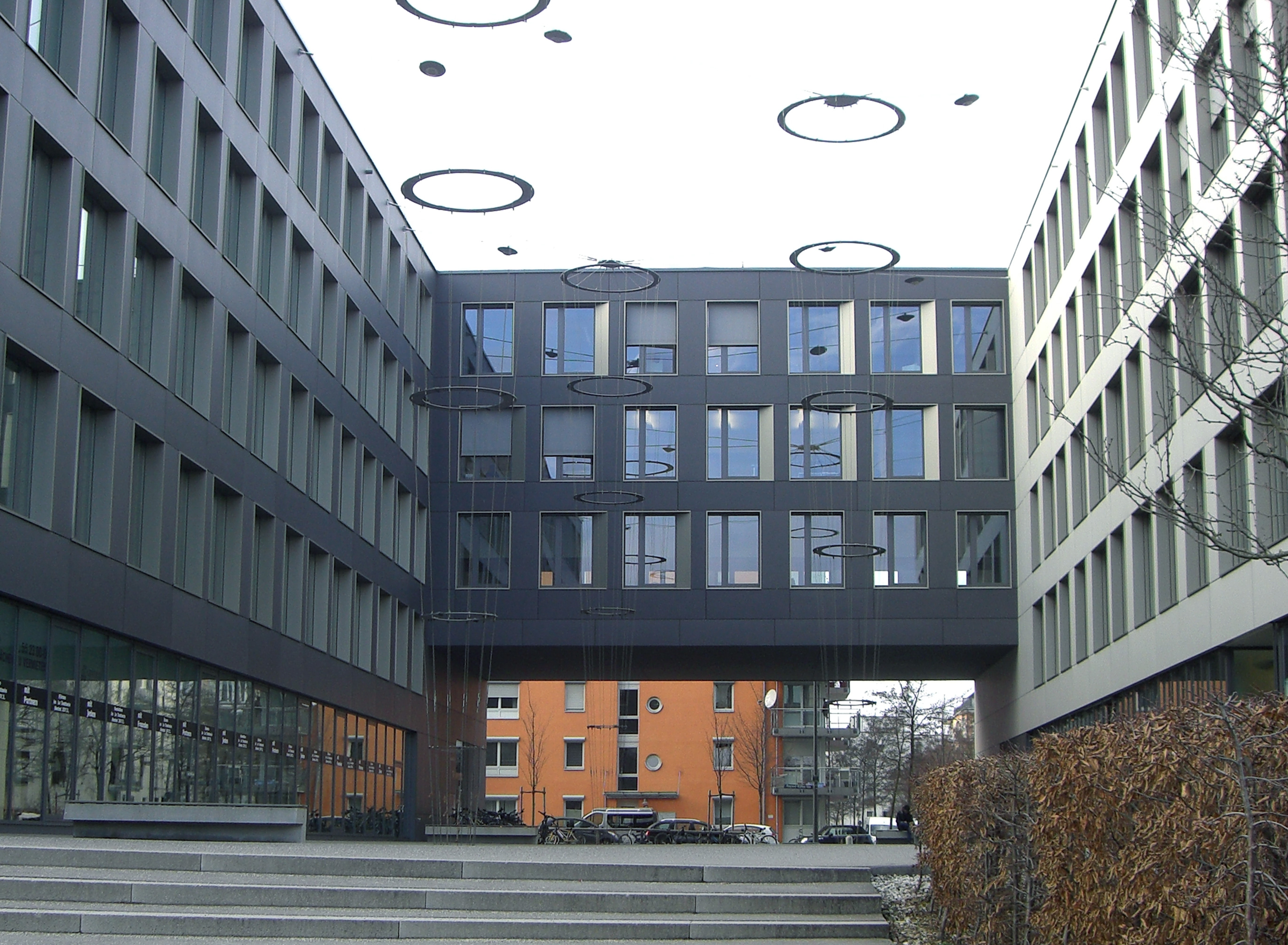 Picture of European University in Munich